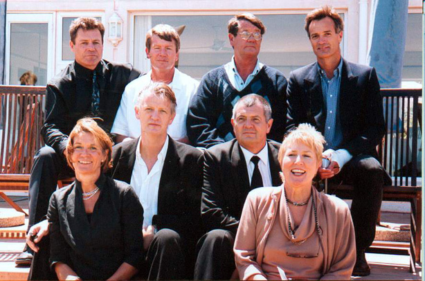 Eight of the nine second-generation Wichts, a prominent family in Blouwatersbaai, after who streets in the area have been named.